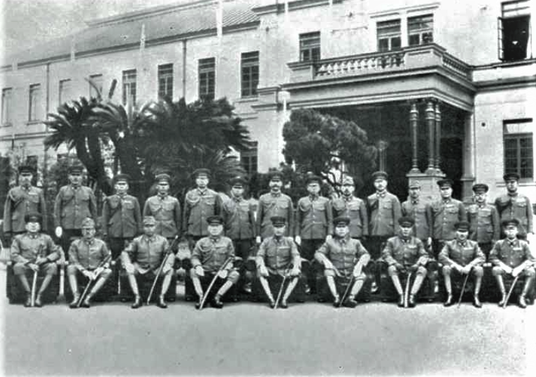 Southern Expeditionary Army Group Commemorative photo of HQ